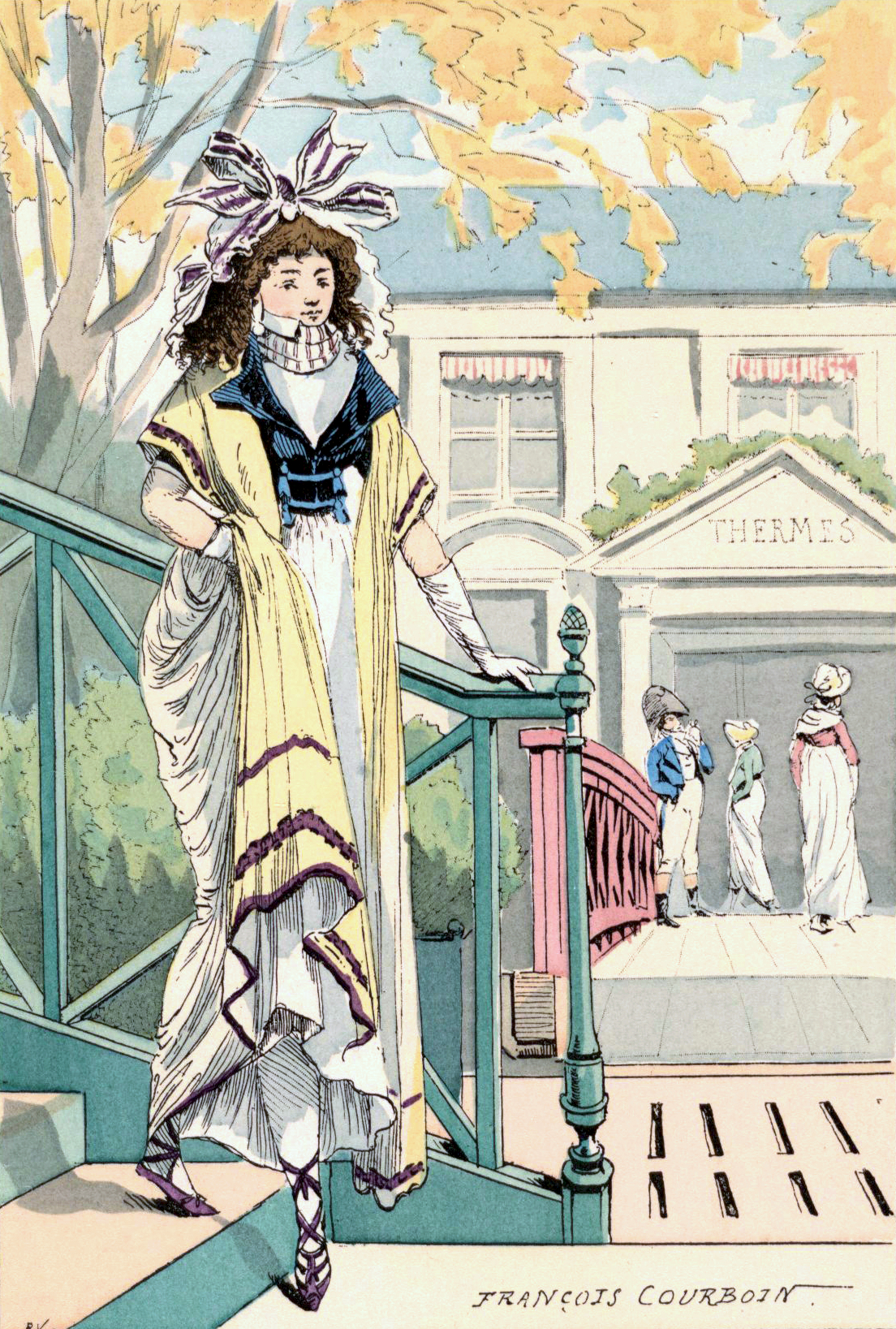 This plate shows a woman descending a staircase in front of the Bains Vigier or the Pavillon des Flore in the 1st arrondissement of Paris. Her dress is typical of the early 19th century. She wears a high-waisted, loose and flowing white dress made of light material. These dresses were made to imitate the style of classical Greece. However, France was much colder than ancient Greece and this woman wears a three quarters length overdress, worn like a shawl over the looser and lighter white robe. This woman is depicted in front of a building reading 'Thermes' where several similarly dressed ladies mill about. Dating back to ancient Greece and Rome, thermal baths and other spa treatments became fashionable in the late 18th century in England and moved throughout Europe, especially among the elite. Spas were often constructed on top of a natural source of water, which was said to have medicinal qualities specific to various ailments.